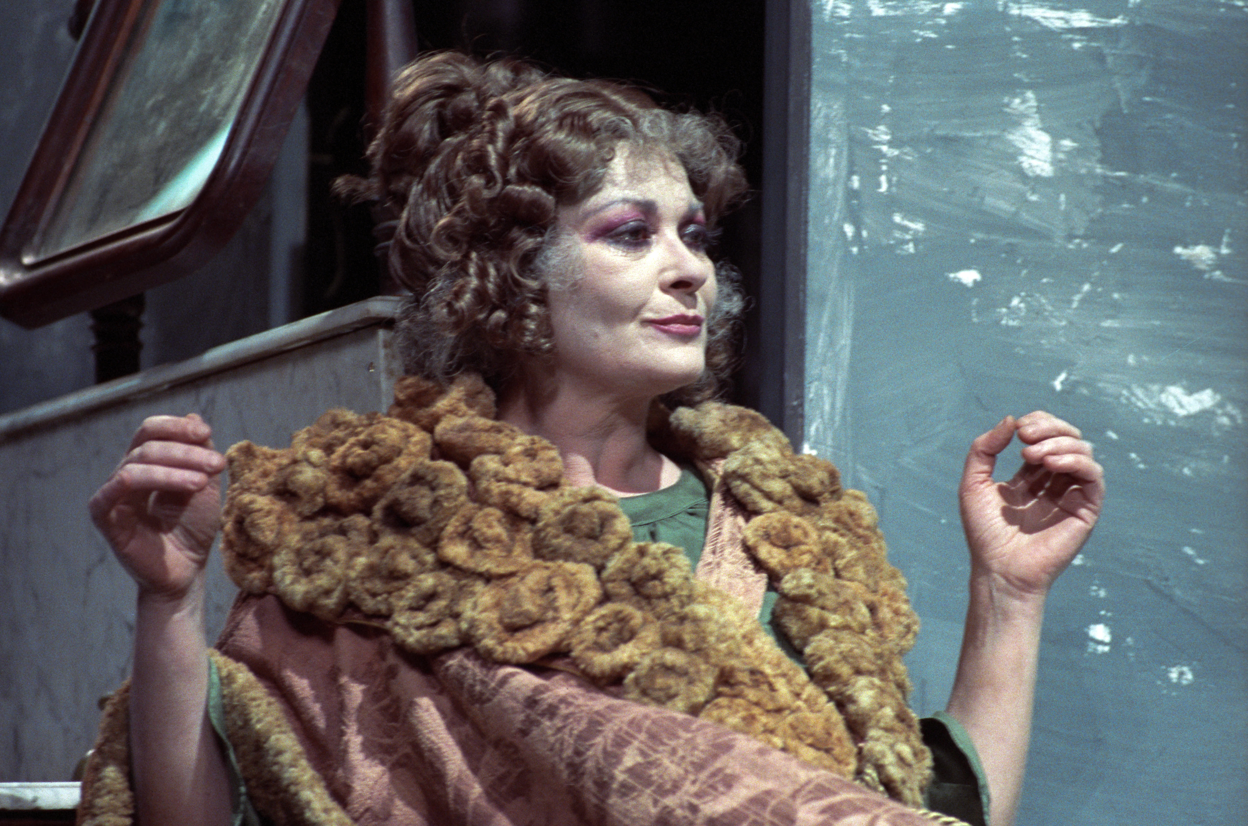 Paola Bacci in scena